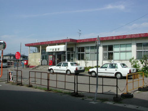 Iwamuro Station in Nishikan-ku, Niigata city, Niigata Prefecture, Japan